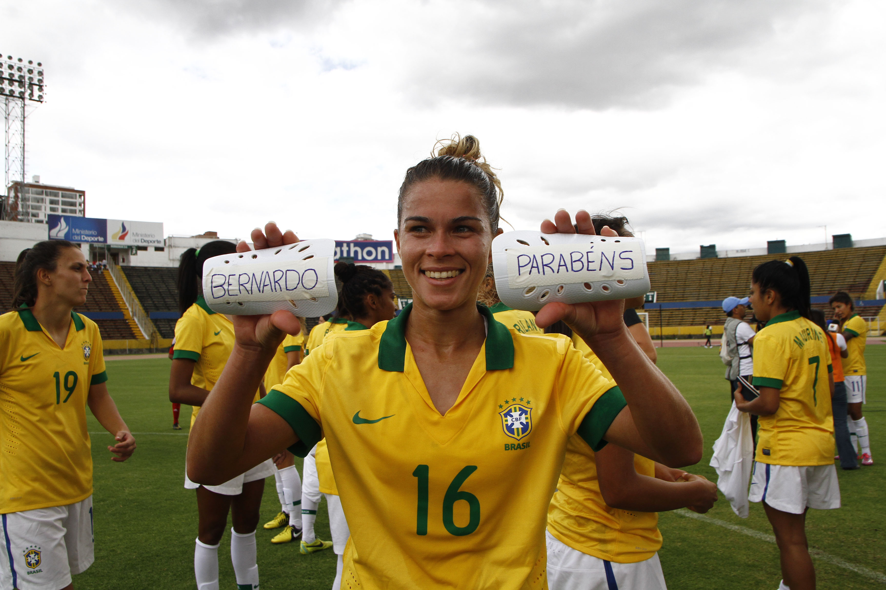 Tamires Cássia Dias Gomes